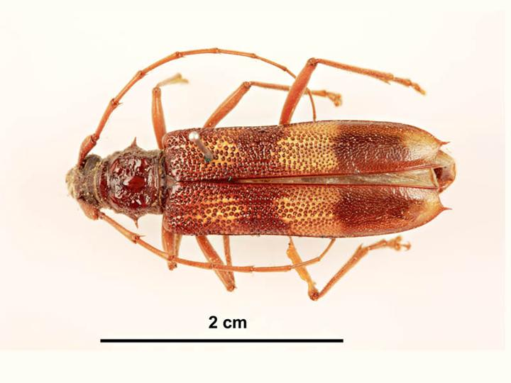 Phoracantha alternata